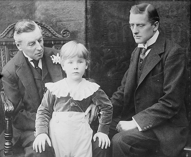 Joseph Chamberlain (1836-1914) with his son Austen (1863-1937) and his grandson Joseph [?].